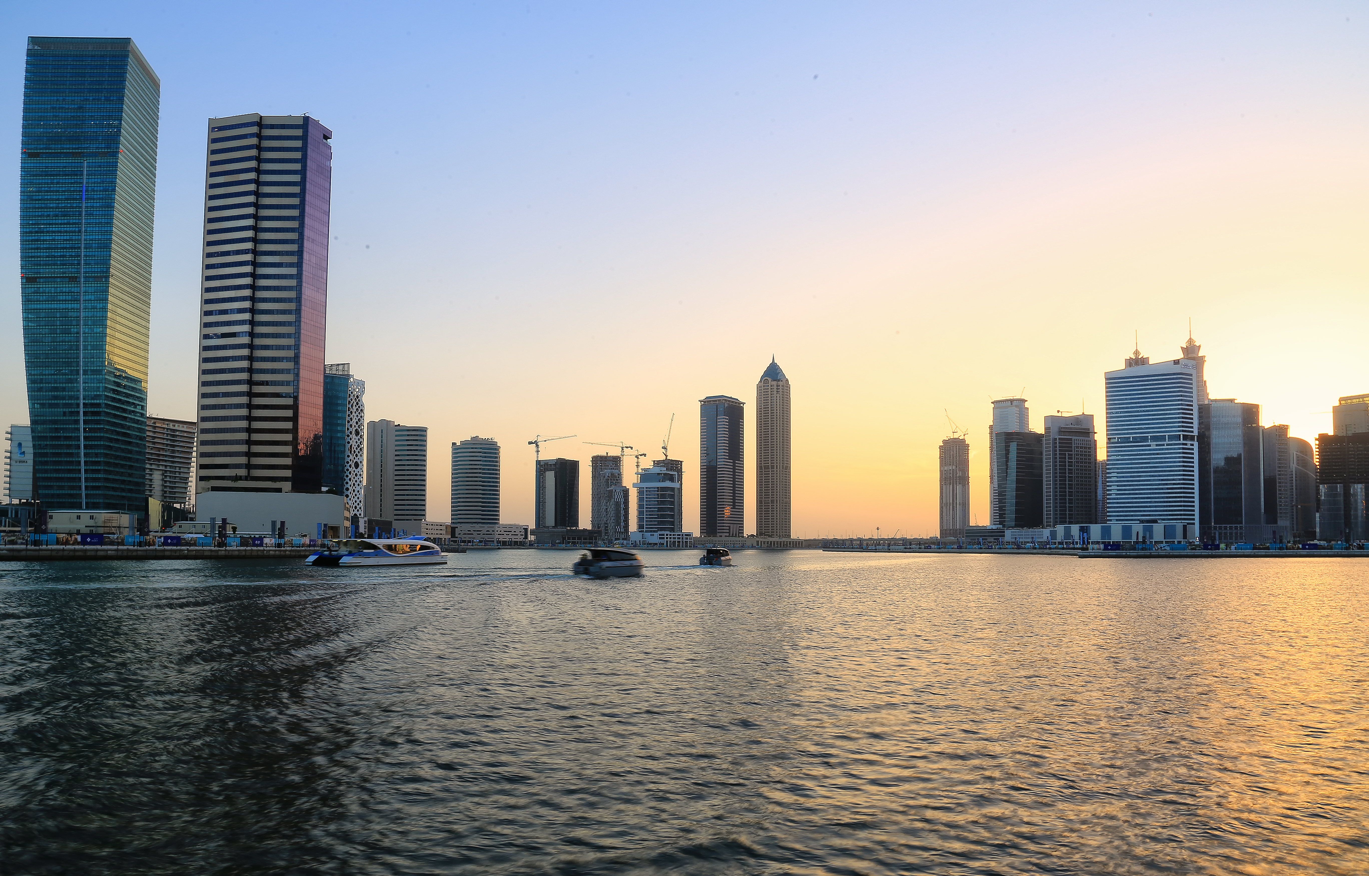 Dubai Water Canal on the side of BusinessBay